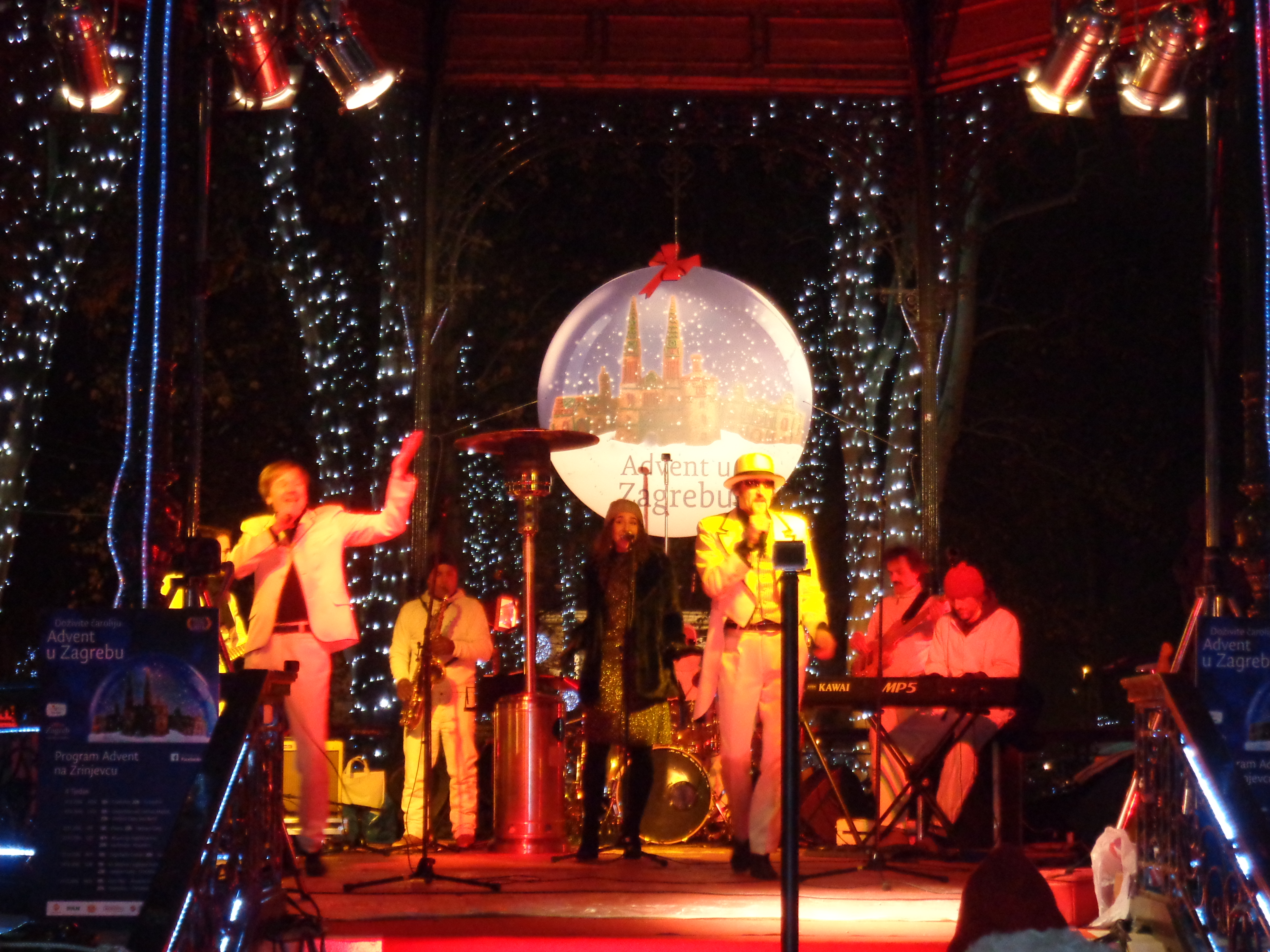 Soul fingers, music band, performing at Zrinjevac Square, Zagreb, Croatia, at 2016 Christmas time